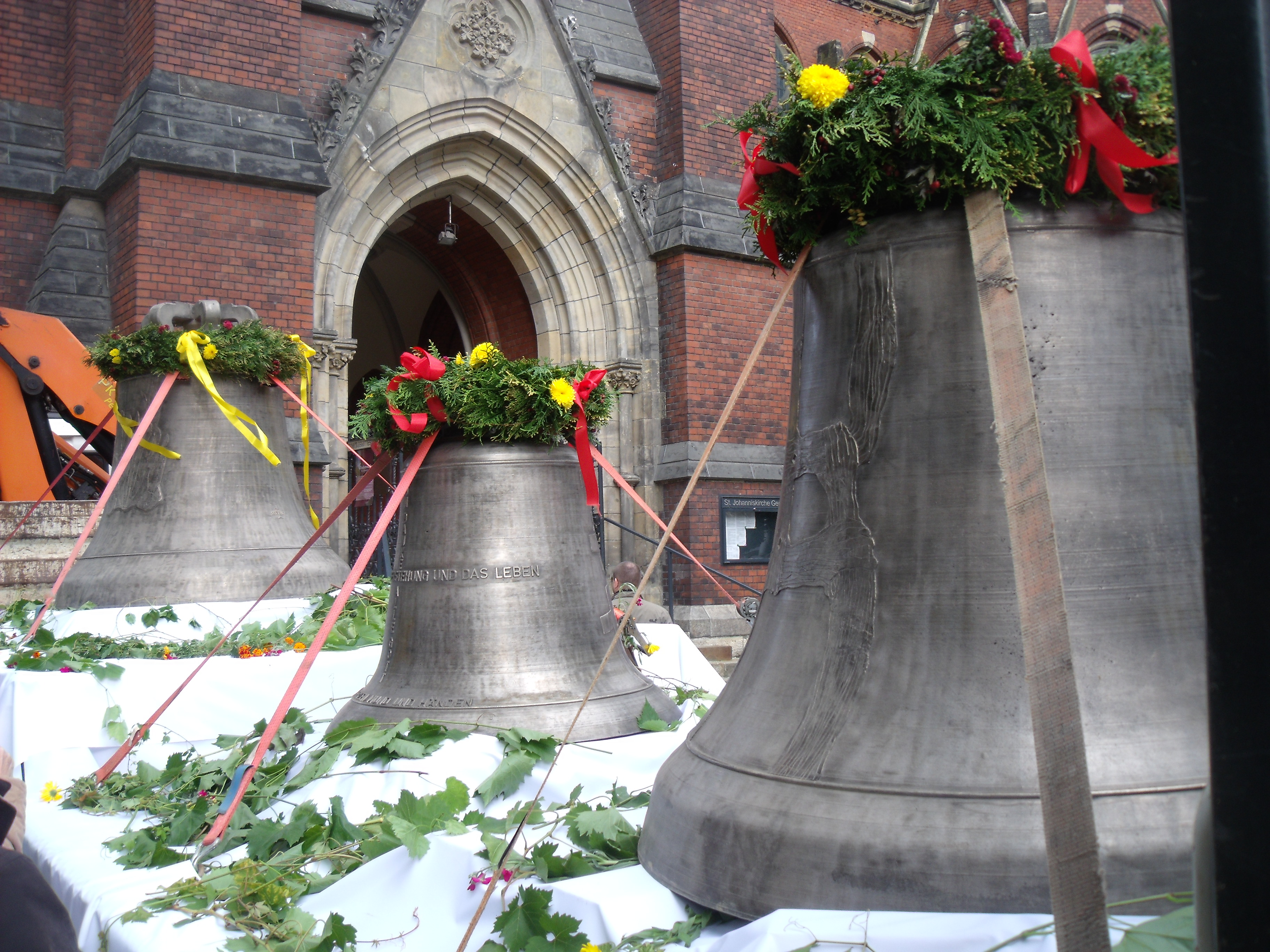 On the 125th consecration jubilee on 18 September 2010 the Johanniskirche in Gera, Germany, got three new bells, which were consecrated by Country Bishop Ilse Junkermann.